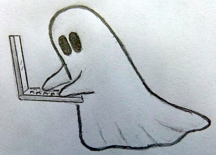 Ghostwriter